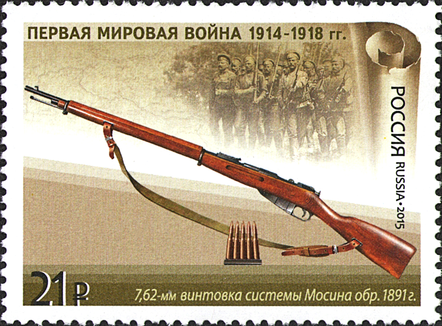 The History of World War I (the ongoing series, issue III). The Russian weapon of World War I. The Mosin–Nagant rifle model 1891. The stamp of Russia, 21.00 ₽, 10 September 2015, PTC Marka Catalogue No. 1995, Michel No. 2212. Coated paper. Offset printing. Perforation: comb 12. Size of the stamp: 50×37 mm. Print run: 396,000.